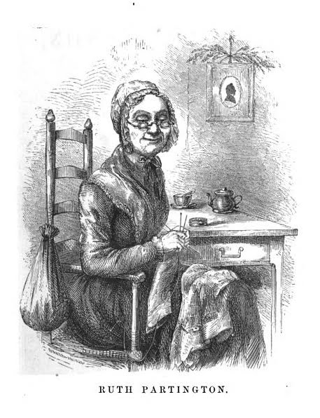 Illustration of the fictional character Mrs. Ruth Partington. From Life and Sayings of Mrs. Partington, and Others of the Family by Benjamin P. Shillaber. New York: Derby & Jackson, 1858. Frontispiece.